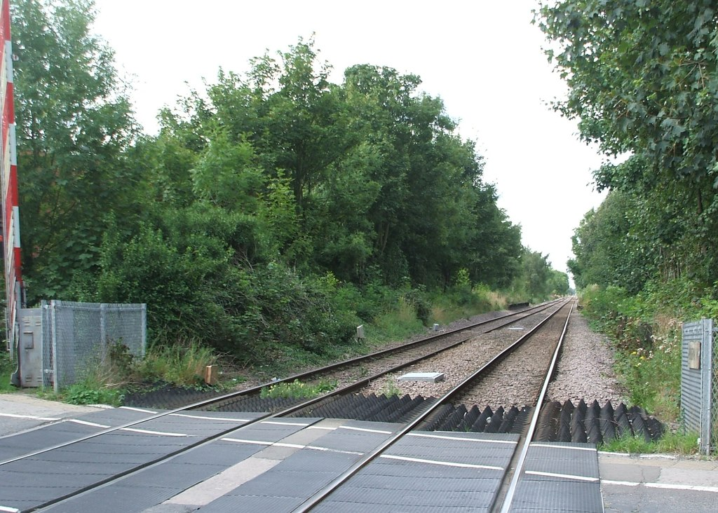 Askern railway station (site), YorkshireOpened in 1848 on the Lancashire & Yorkshire Railway's line from Doncaster to Knottingley, and closed in 1948. View north west towards Knottingley and Wakefield. A fragment of platform still survives in the middle distance.